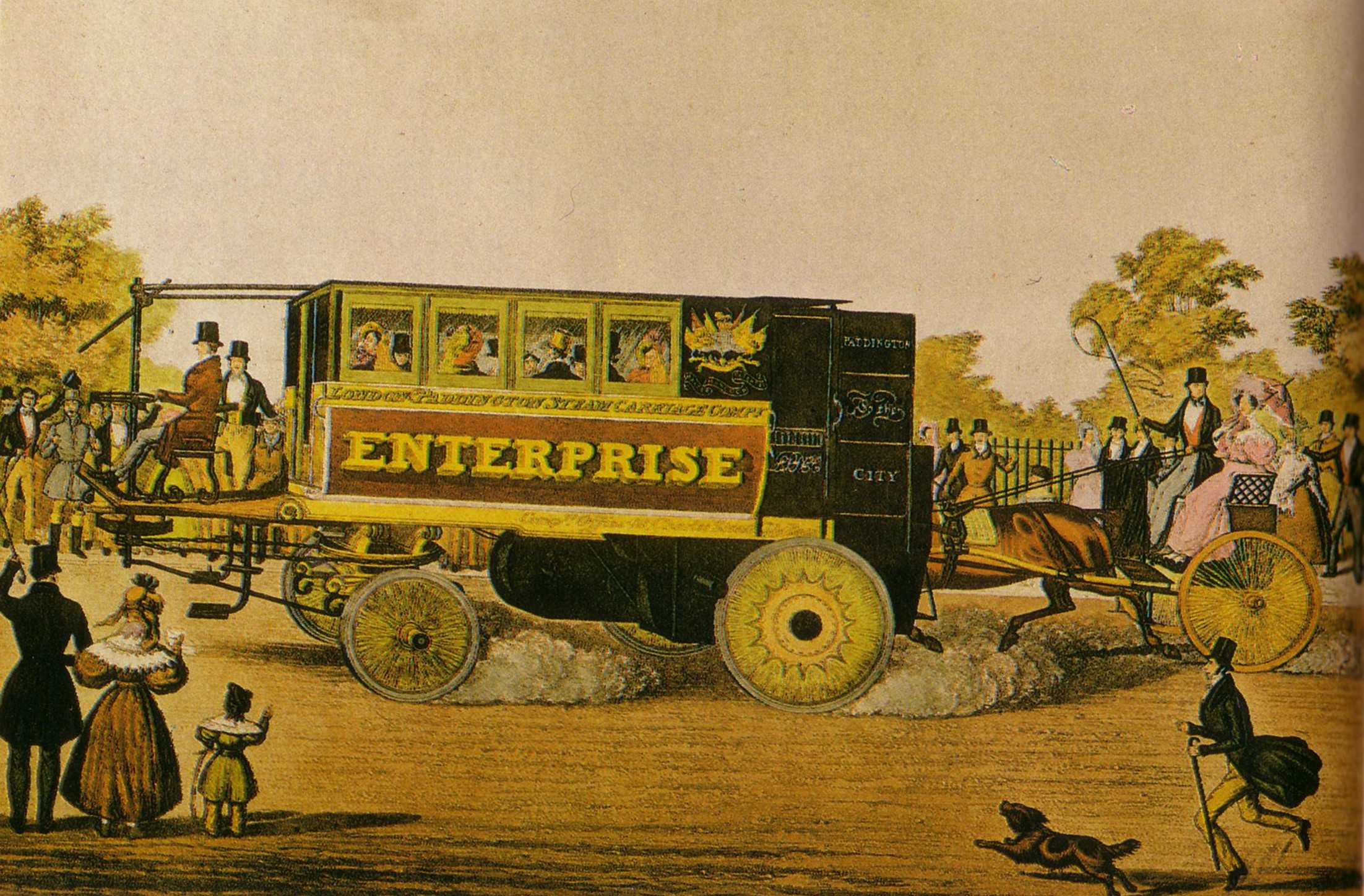 The first steam powered vehicle able to transport people. Build in 1803 in England by Trevithick Built by Walter Hancock in 1833